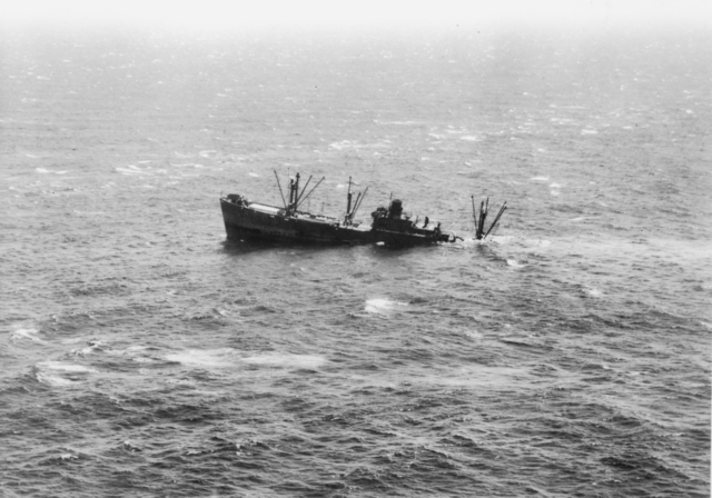 AWM Caption: United States of America Liberty Ship 'Starr King' sinks off Port Macquarie, NSW after being torpedoed by a Japanese submarine. During the six months after 18 January 1943, Japanese attacked 21 Allied ships totalling 109,651 tons off the East Coast of Australia and ships totalling 50,022 tons were sunk.